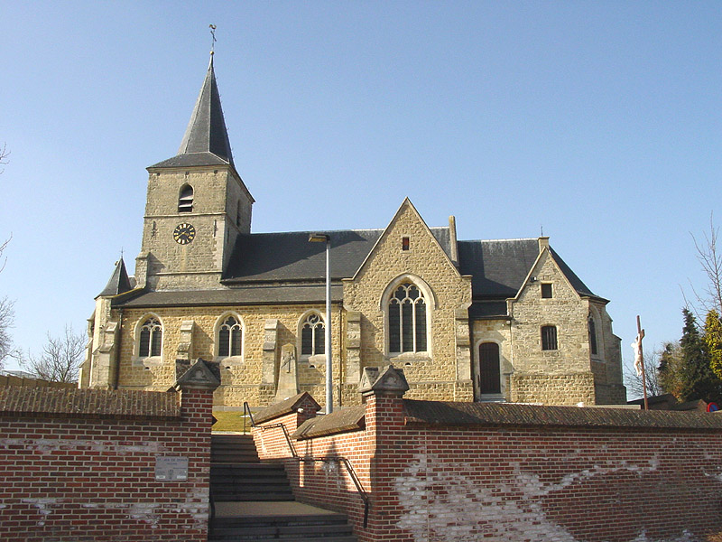 St Jan de Doper church in Relegem, near Wemmel, Belgium.